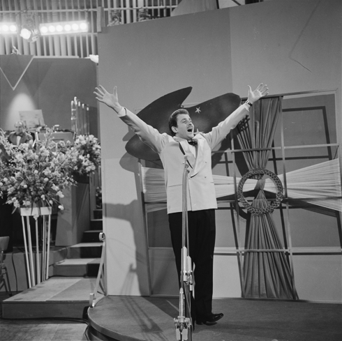 Domenico Modugno at the 1958 Eurovision Song Contest in Hilversum